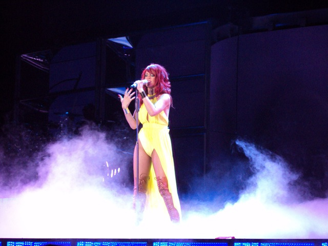 Rihanna Live at Oracle Arena on her LOUD Tour.